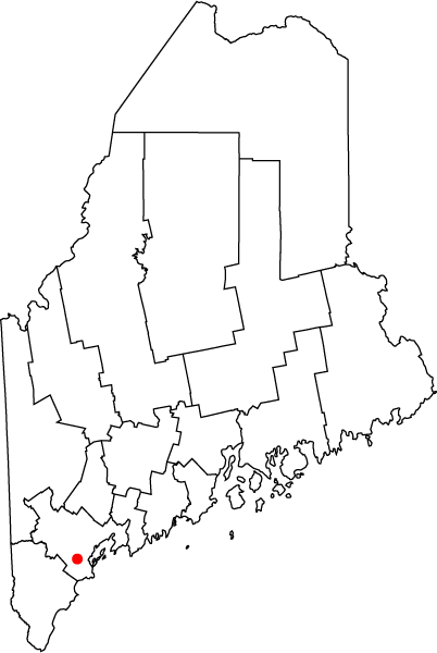 Map of the state of Maine with County Outlines, highlighting Westbrook.